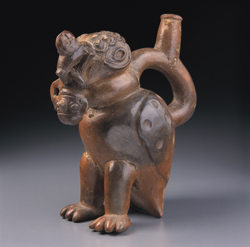 Moche Condor. Larco Museum Collection, Lima, Peru.